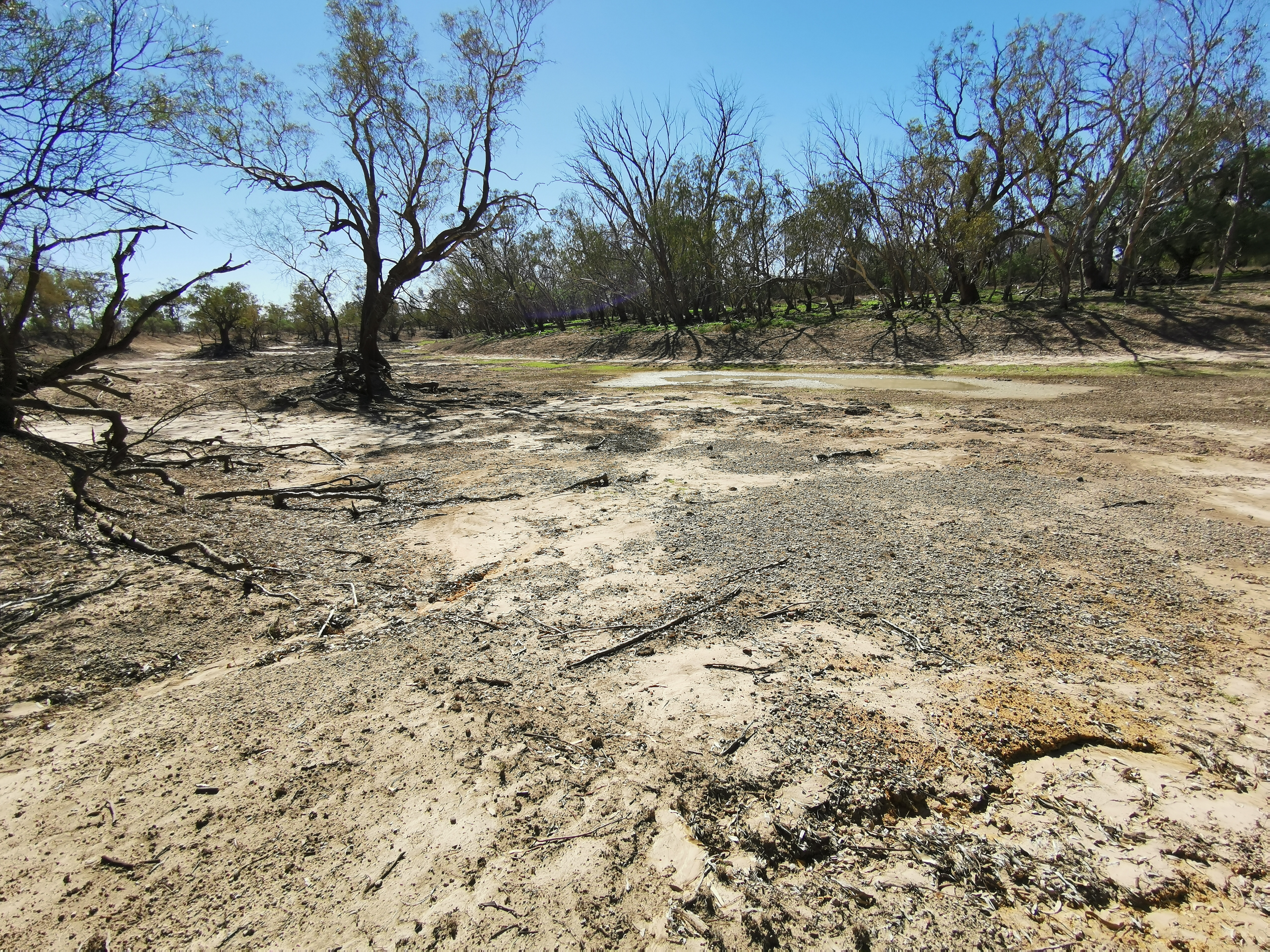 This photograph shows the almost completely dry section of the Moonie River in northern New South Wales. The official spelling for the name of the river in New South Wales is Mooni River but common usage and the signpost at Gundablouie Bridge is Moonie River - the same as in Queensland which is the state in which most of the river is located.